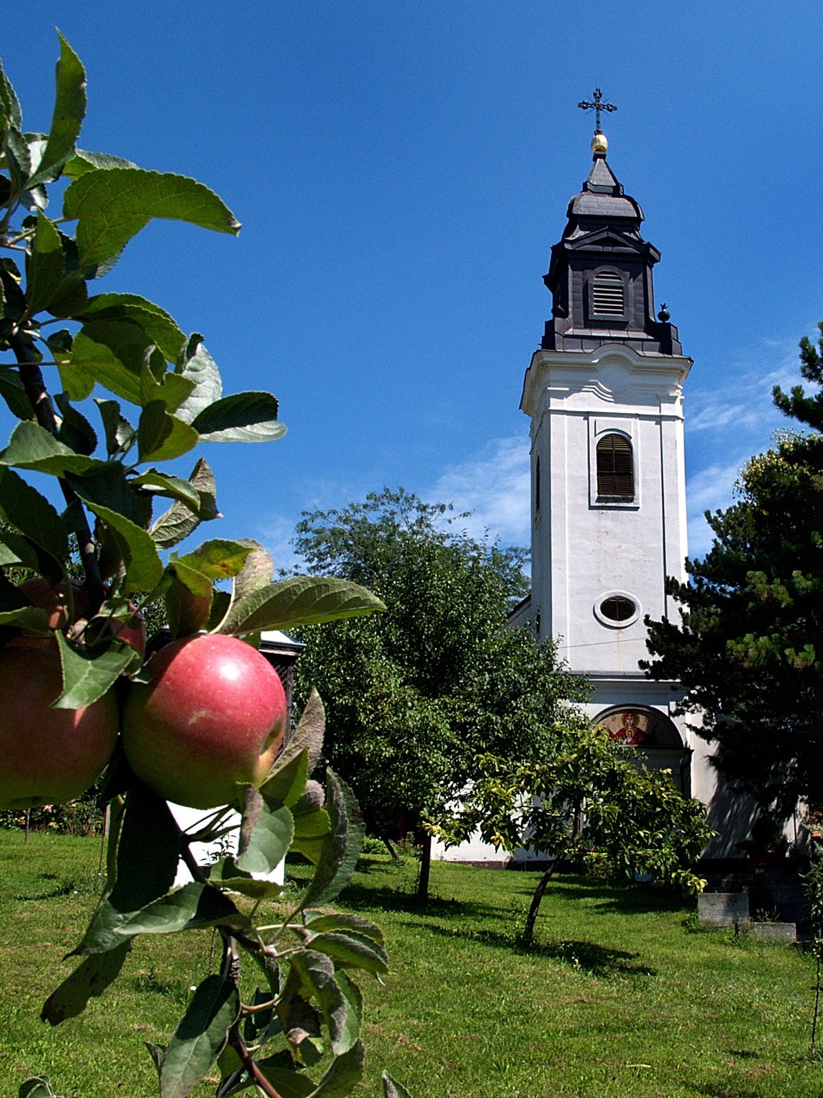 Orthodox church in Indjija